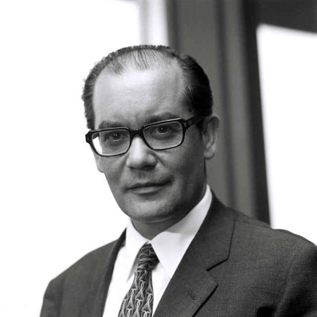 Franco Maria Malfatti (Rome, 13 June 1927 – 10 December 1991), was an Italian politician.